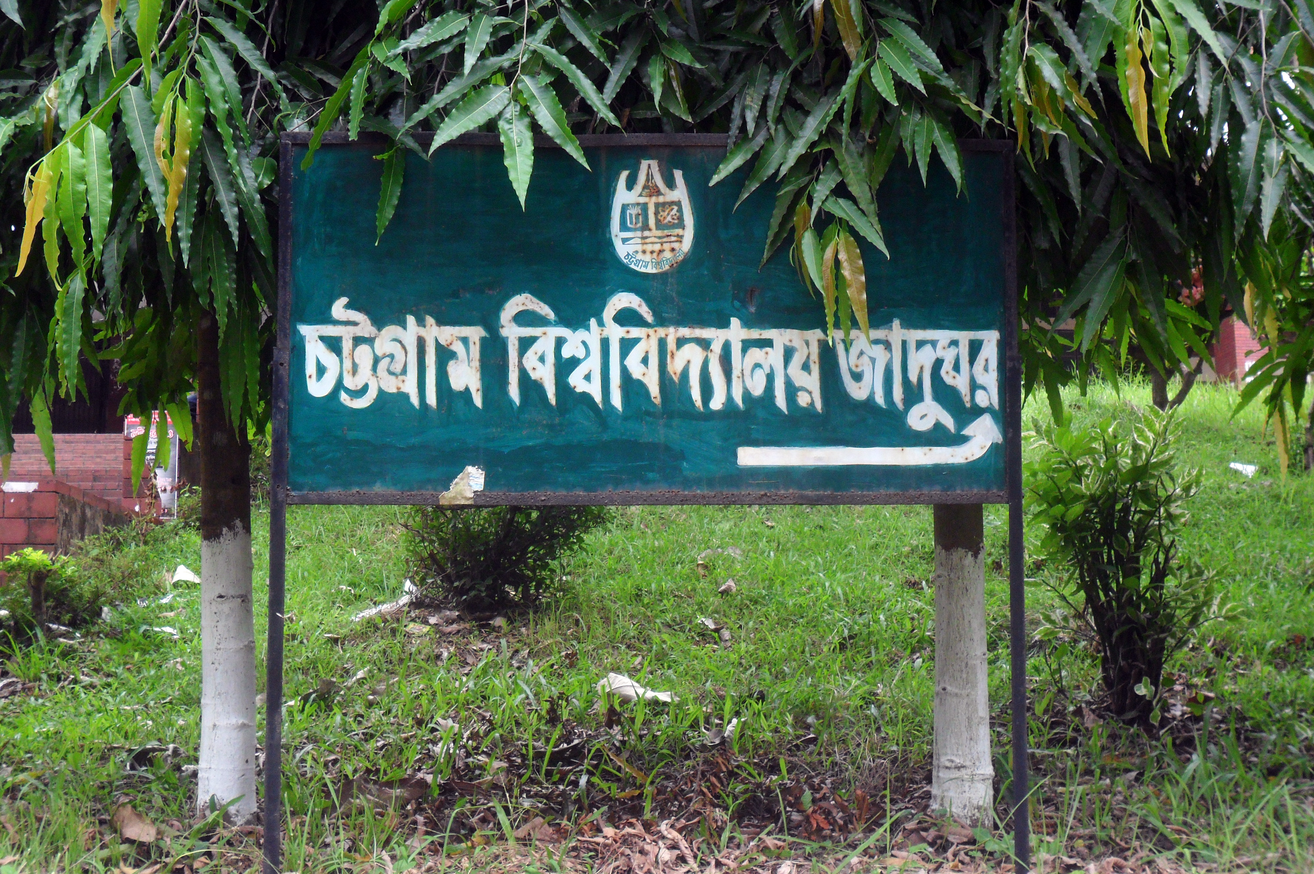 Directional road sign of Chittagong University Museum